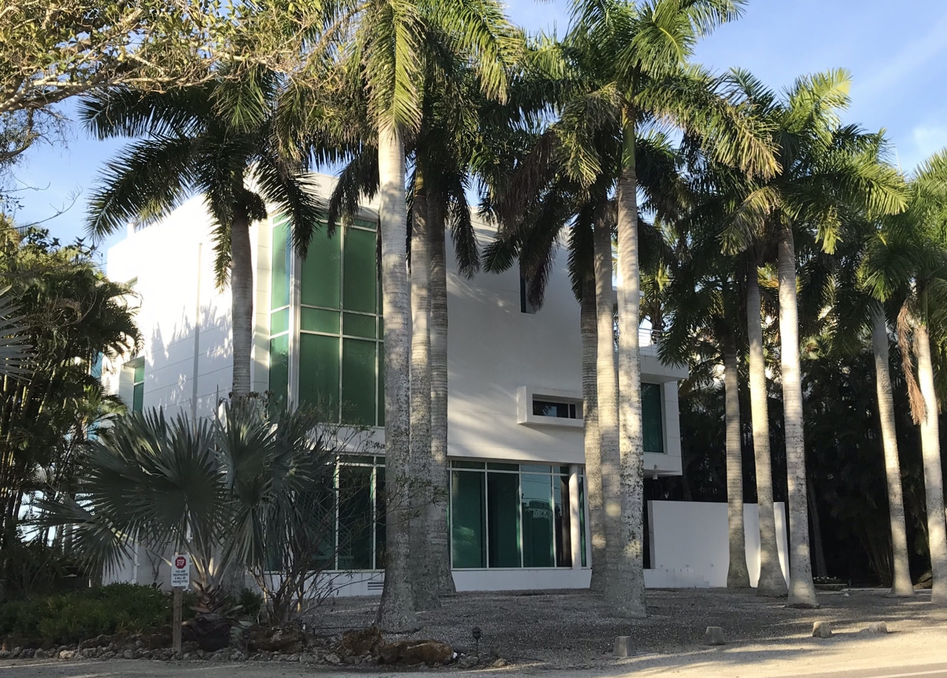 Anaclerio House (Guy Peterson, Architect, FAIA)